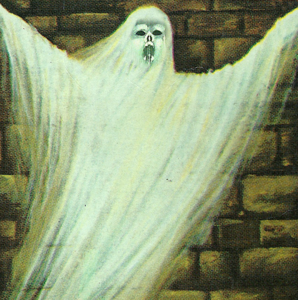 Medieval ghost